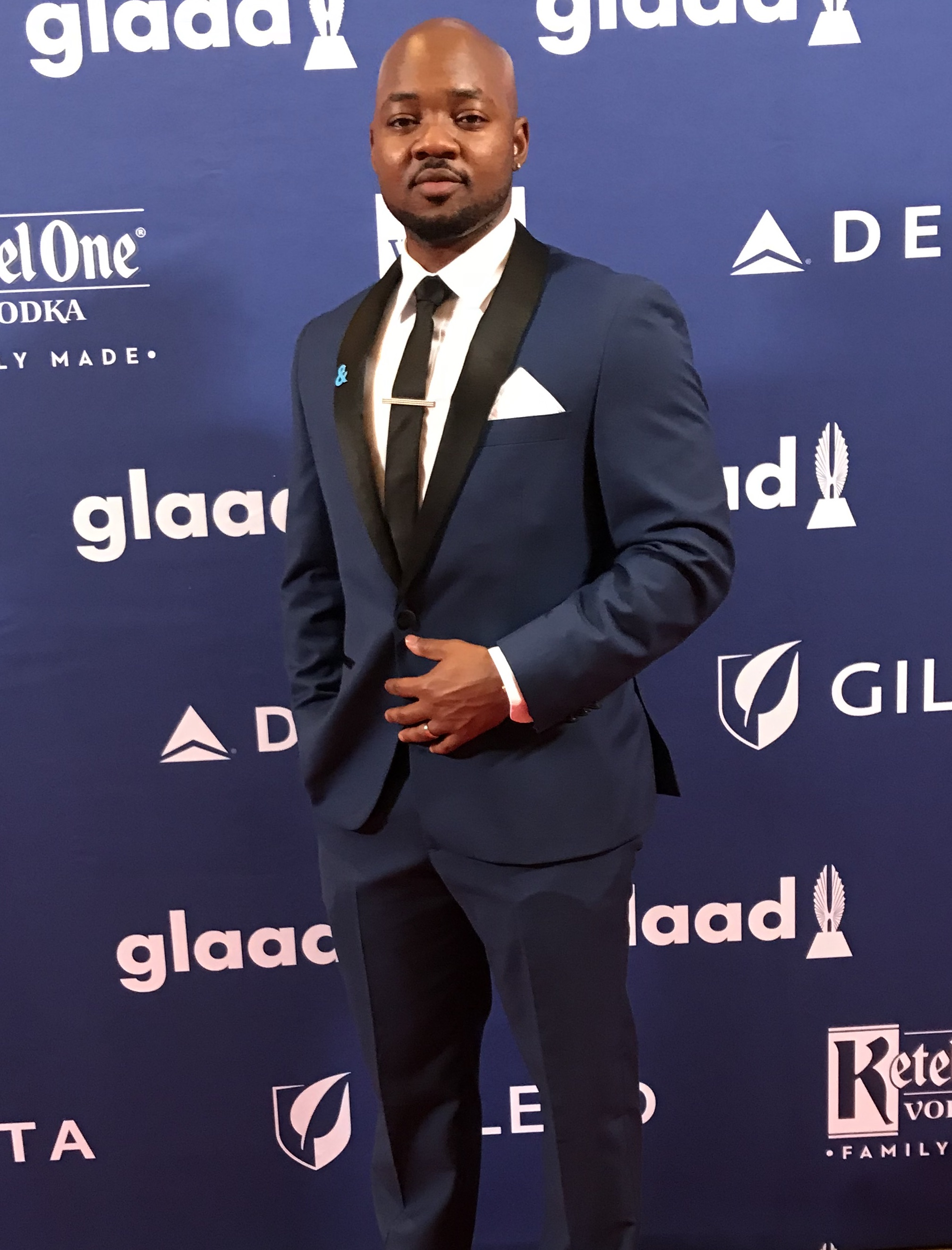 Actor Brian Michael at 2018 GLAAD Media Awards in NYC